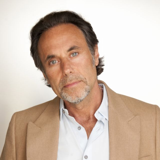 Jonathan Elias, founder Elias Arts 2011